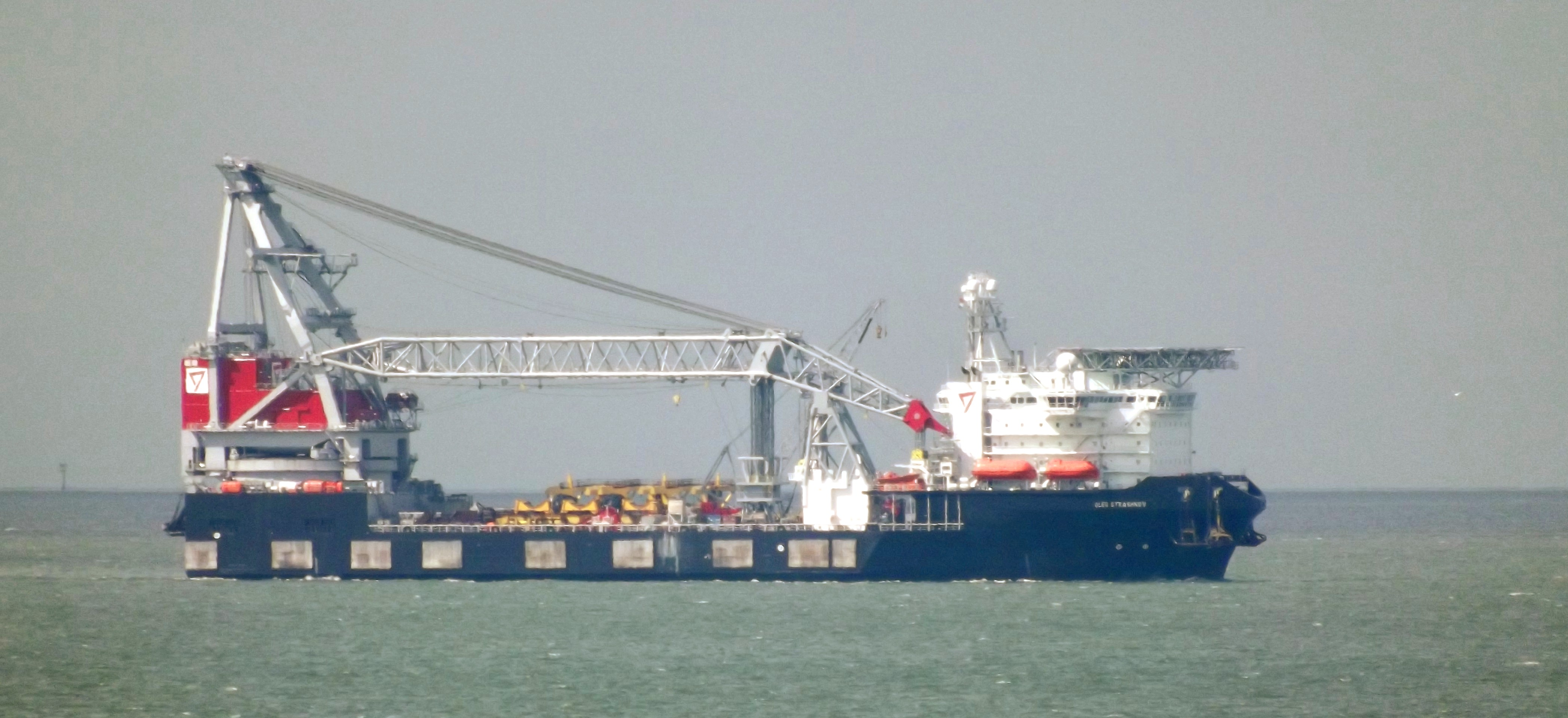 Crane vessel "Oleg Strashnov" spotted at the Belgian coast near the Scheldt estuary on 7 July 2011.